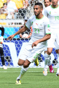 Riyad Mahrez (left) and Nabil Bentaleb (right) prevent Belgium's Toby Alderweireld from getting close to keeper Rais M'bohli. رياض محرز (بسار) ونبيل بن طالب (يمين) يمنعان لاعب بلجيكا توبي آلدرويرلد من الاقتراب من حارس المرمى الجزائري رايس مبولحي. Riyad Mahrez (à gauche) et Nabil Bentaleb (à droite) empêchent le Belge Toby Alderweireld de s'approcher du gardien Rais M'bohli.